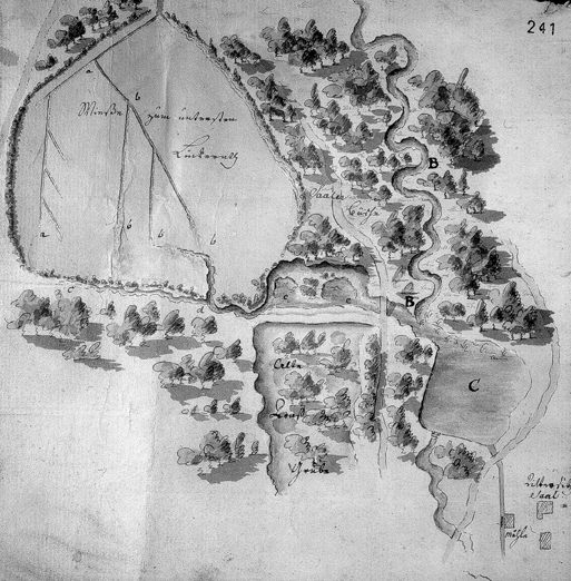 manor Rittersitz Saal